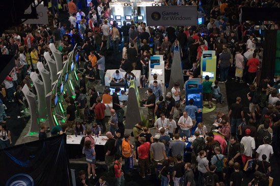 I am the author/creator of this image.